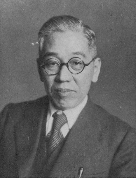 Takeshi Inoue.